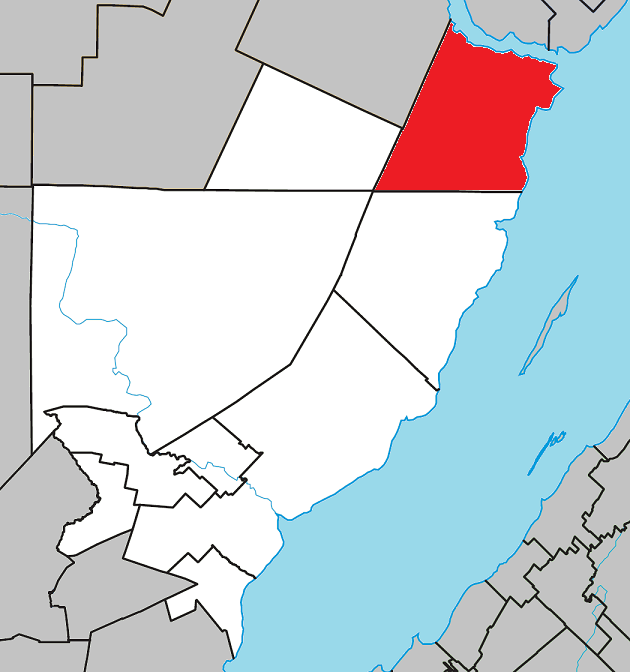 Location of Baie-Sainte-Catherine, Quebec within Charlevoix-Est Regional County Municipality.